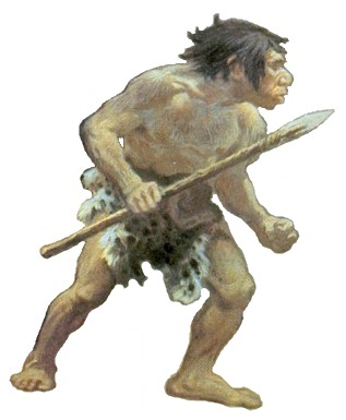 Le Moustier Neanderthals, AMNH.